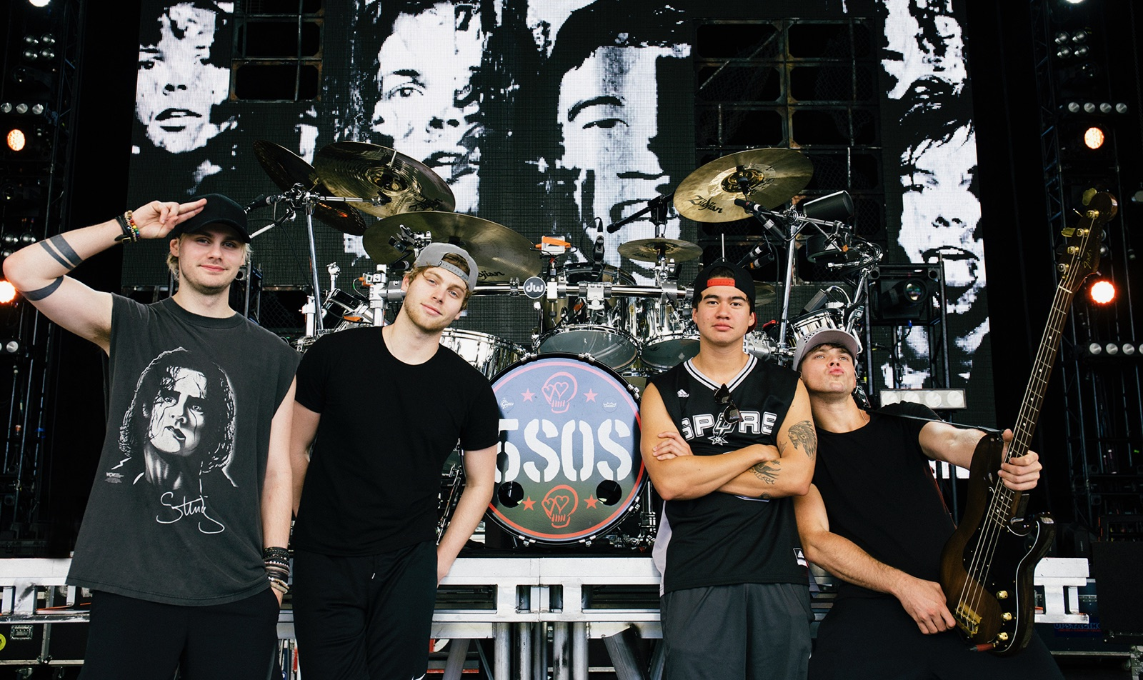 The four members of 5SOS on stage.